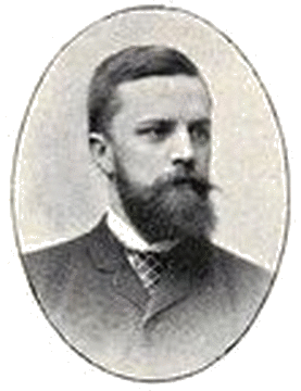 Portrait of the Swedish engineer Jogn Luth.